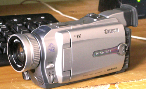 Self-made picture of the Canon MVX100i for use in the Canon MVX100i article. I release it in to the public domain.